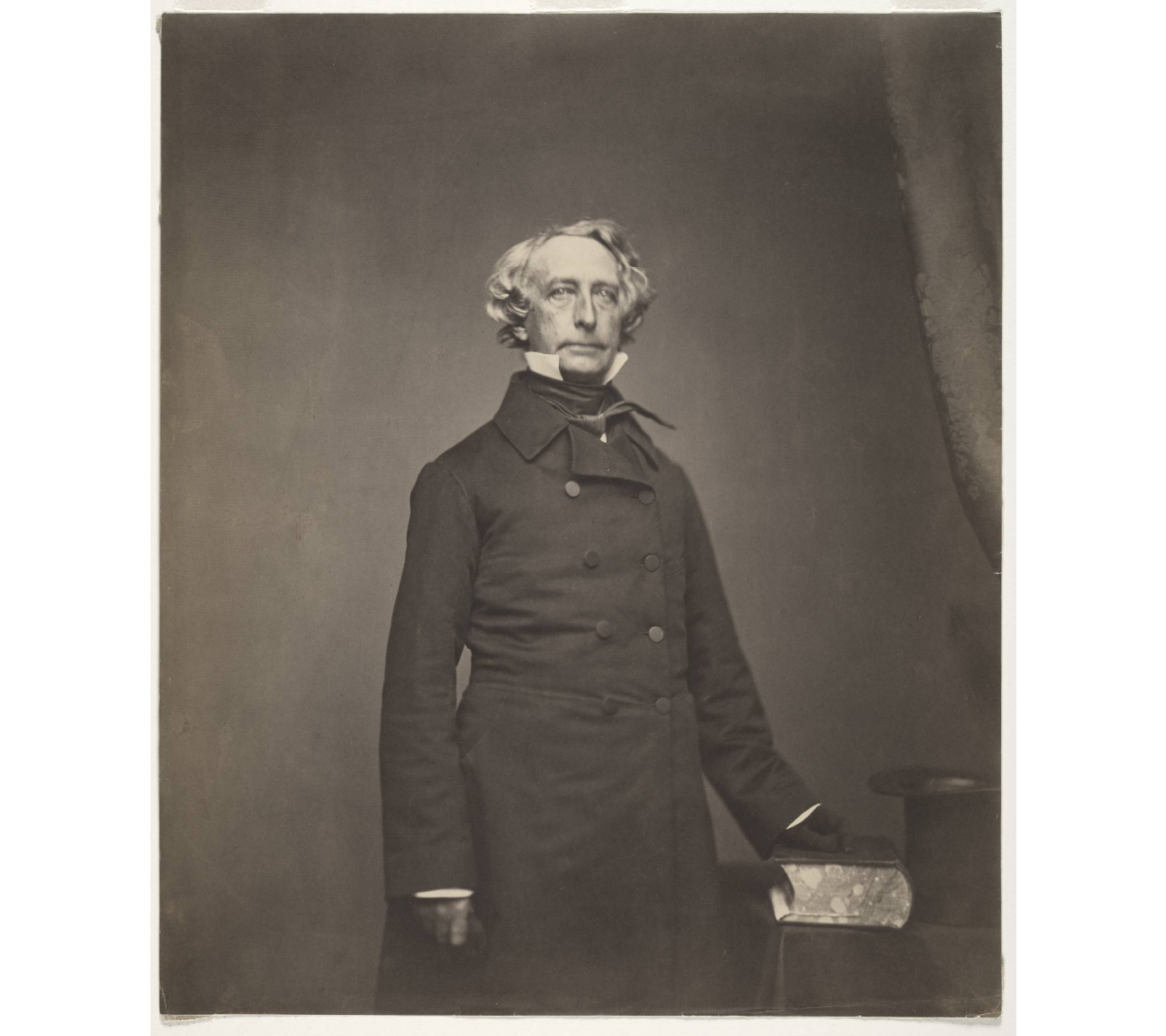 Salted paper print from wet collodion negative Image: 47 x 39.4 cm (18 1/2 x 15 1/2 in.); Matted: 66 x 55.9 cm (26 x 22 in.)